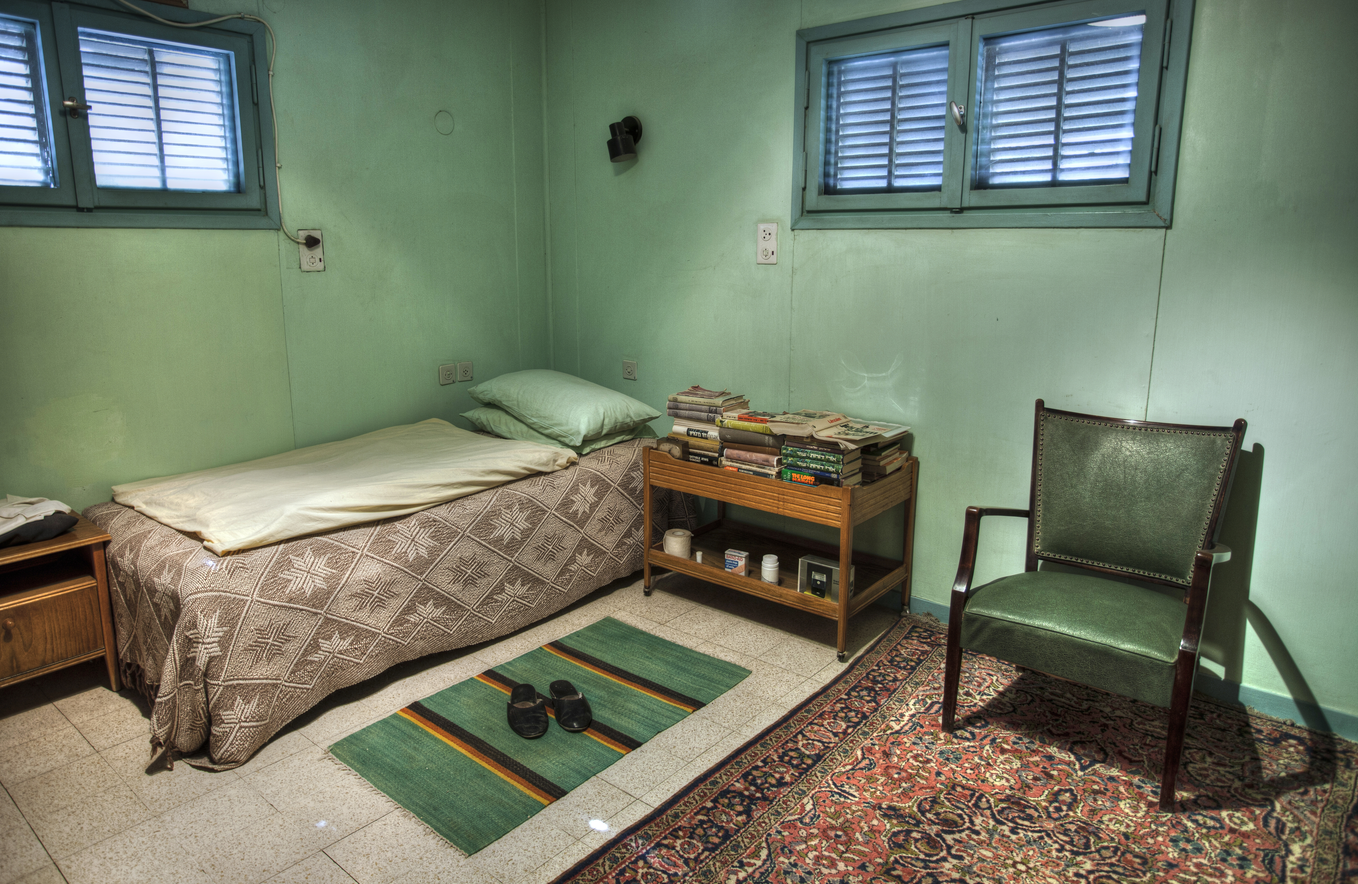 Interior of David Ben Gurion's hut in Sde Boker